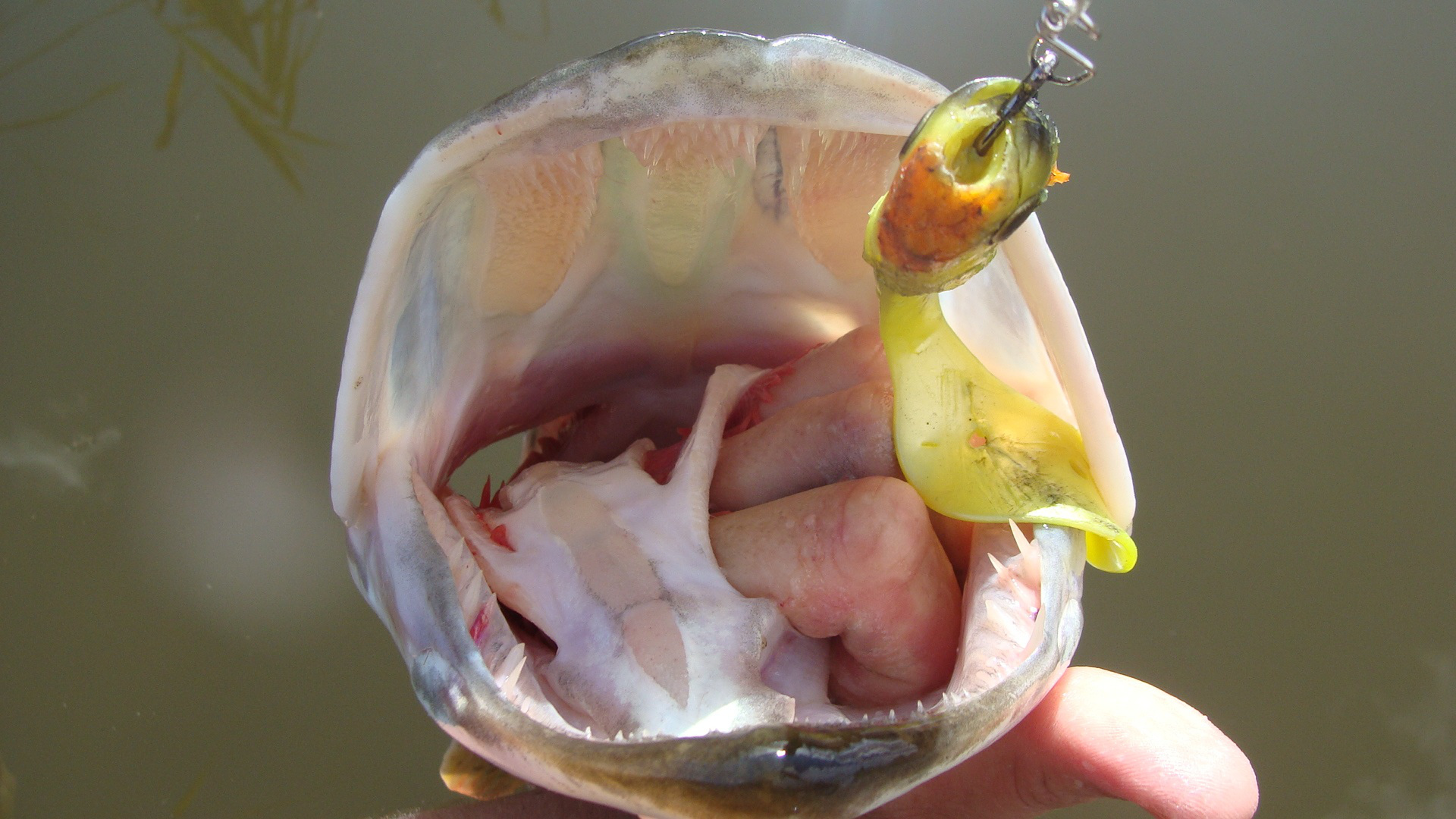 Mouth of northern pike